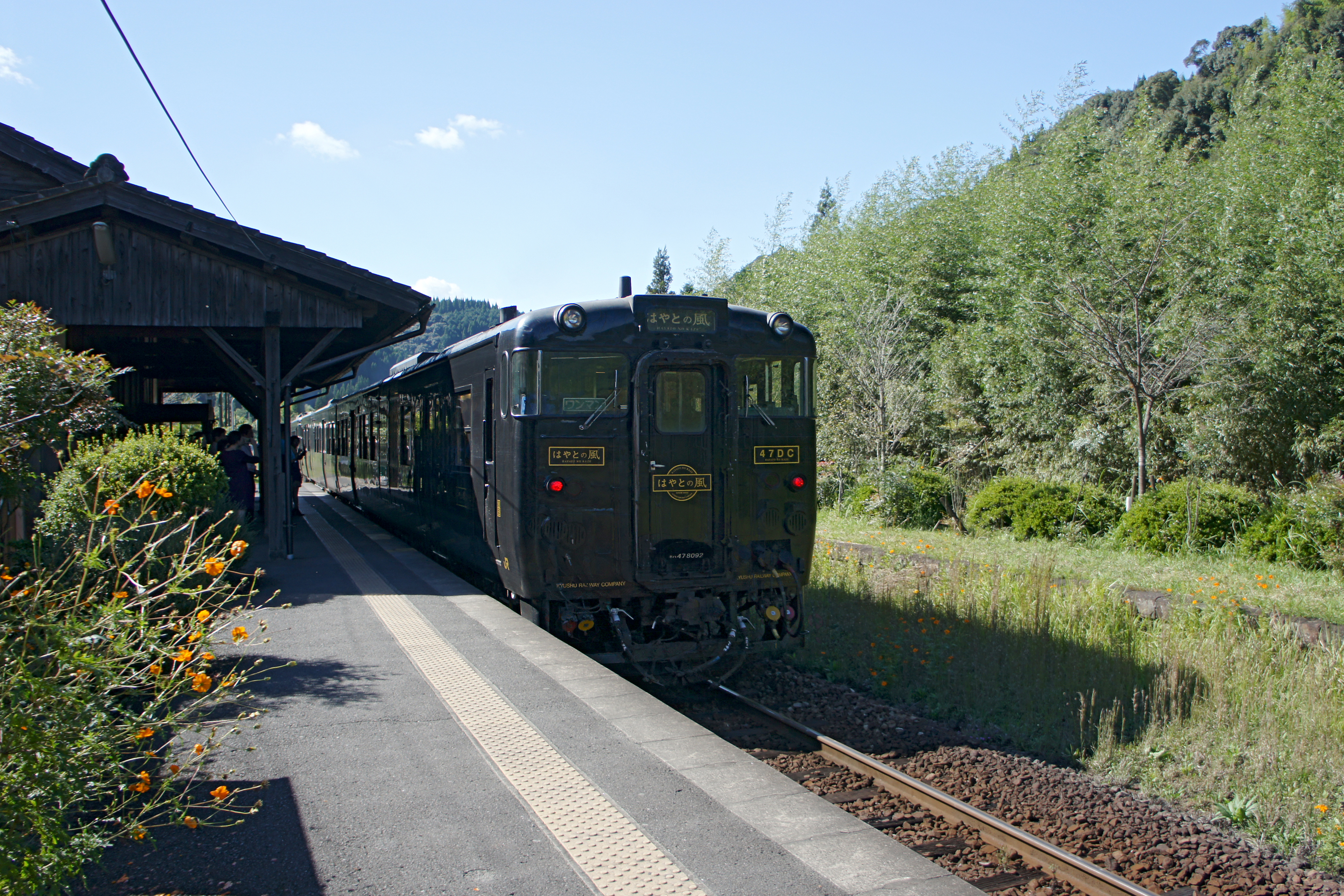 Kareigawa Station in Kirishima, Kagoshima prefecture, Japan